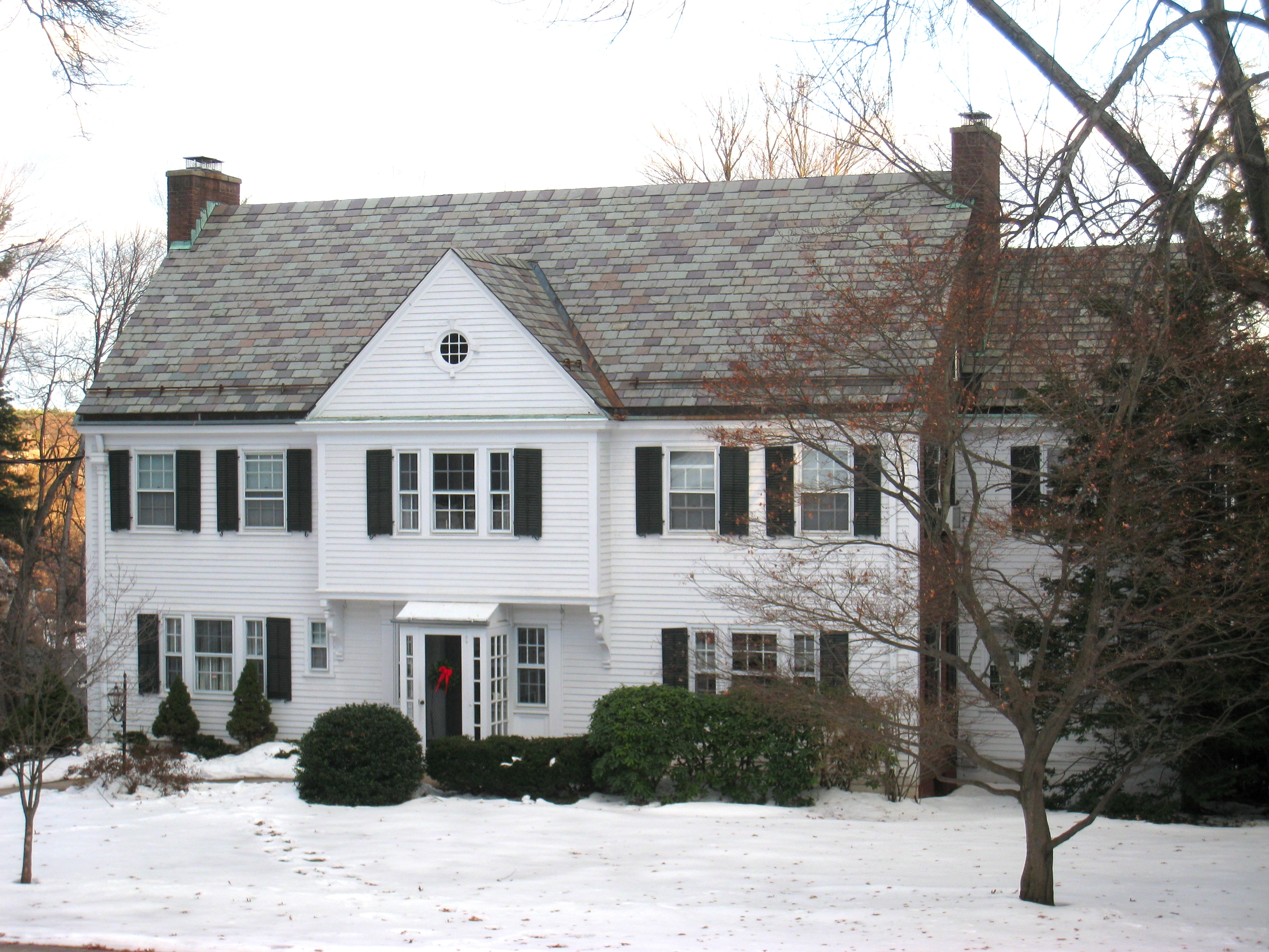 Former home of the noted American poet Wallace Stevens, 118 Westerly Terrace, Hartford, Connecticut, USA. Stevens wrote many of his best-known poems while living in this house. It is a private residence.